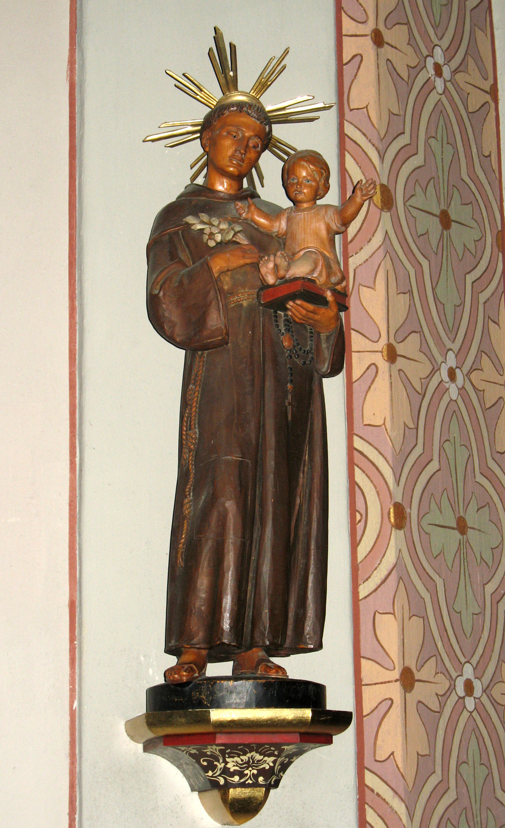 Saint Anthony from the parish church of St. Ulrich in Gröden - Ortisei Val Gardena - Sculptor Ludwig Moroder